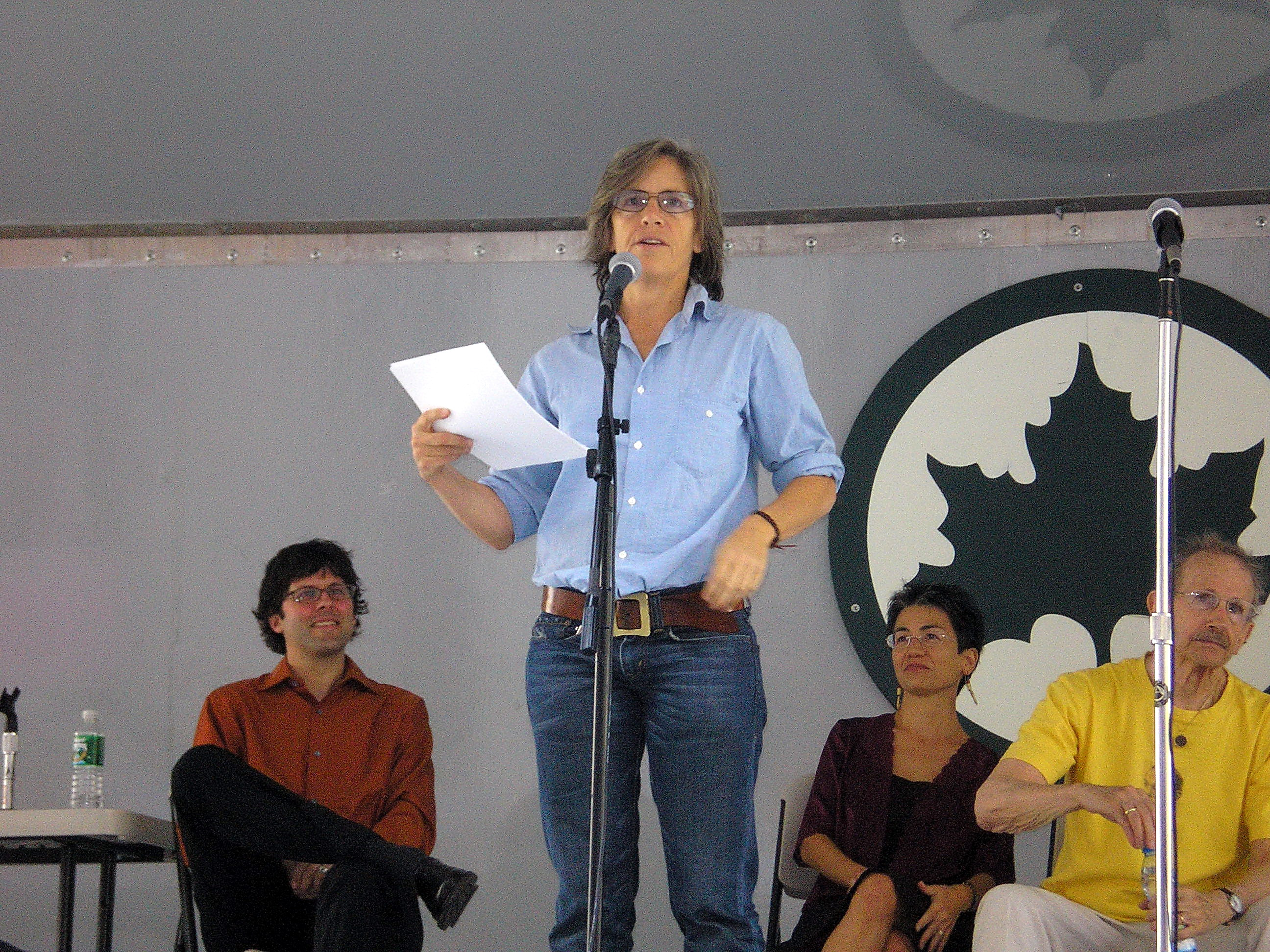 Eileen Myles by David Shankbone, New York City